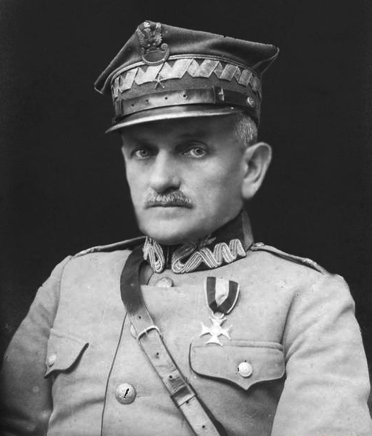 General Leonard Skierski, One of the Polish officers murdered in the Katyń masacre